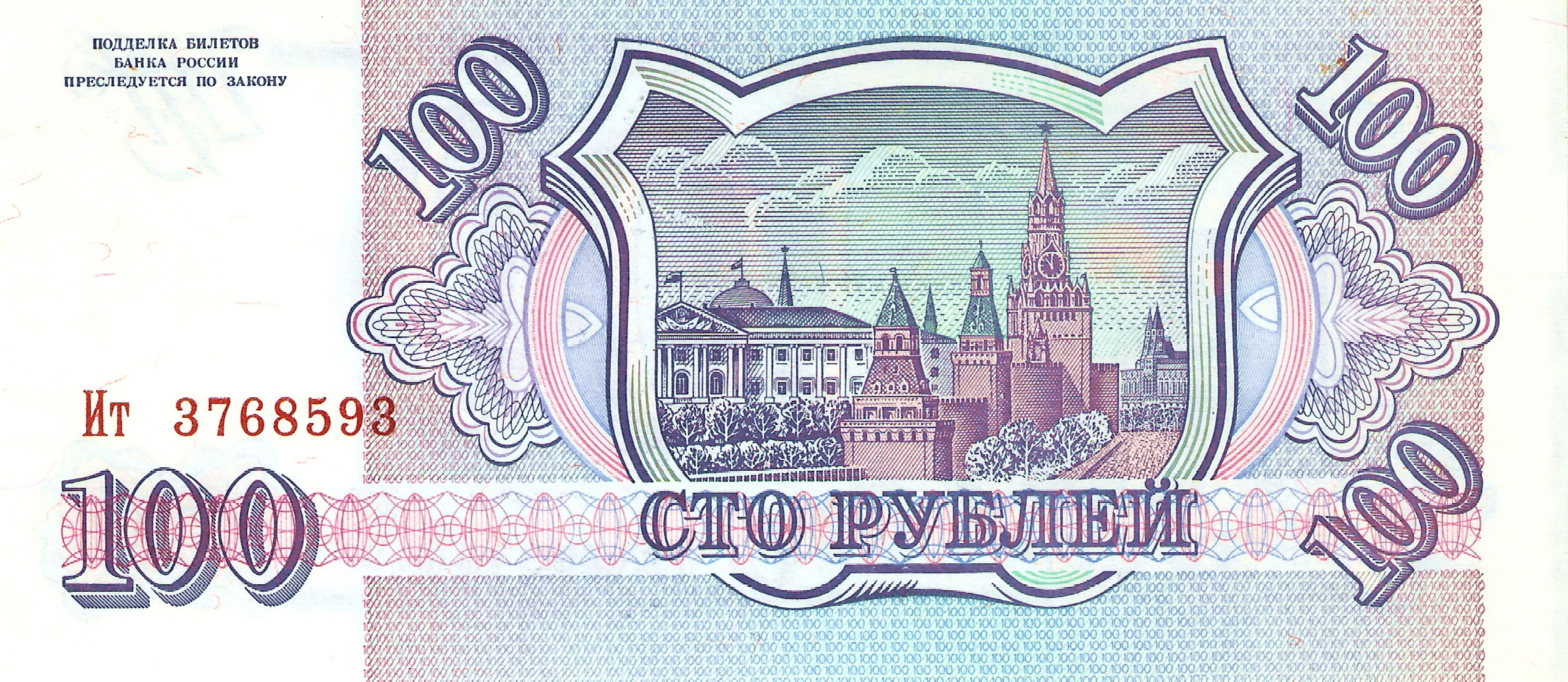 Russian banknote. 100 rubles. Version of 1993 year. Back